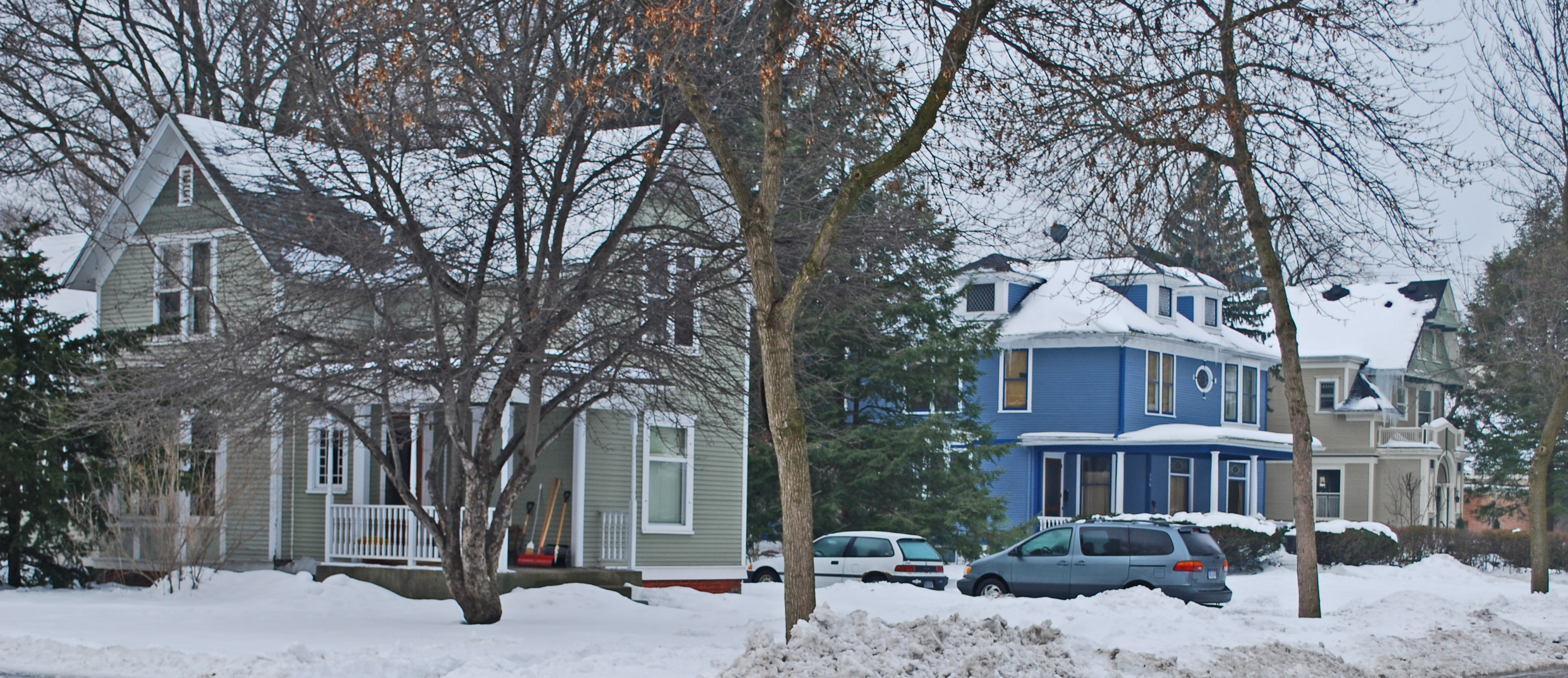 Holland Historic District, Holland MI